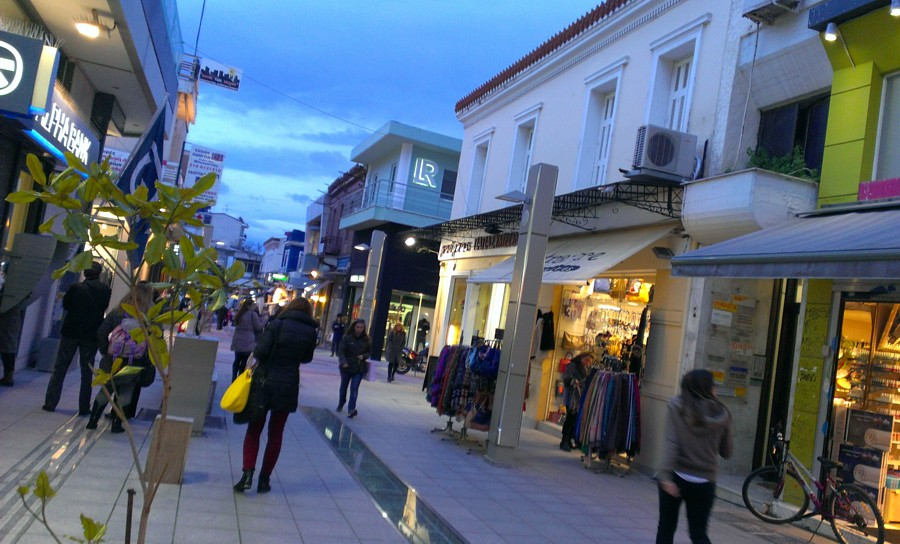 agora